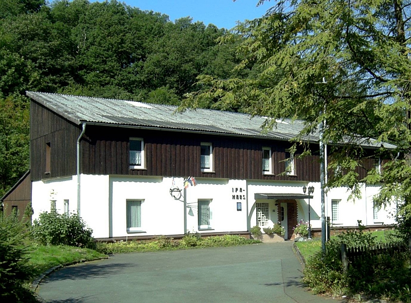 International Police Association (IPA) Haus Ramsbeck , Germany.